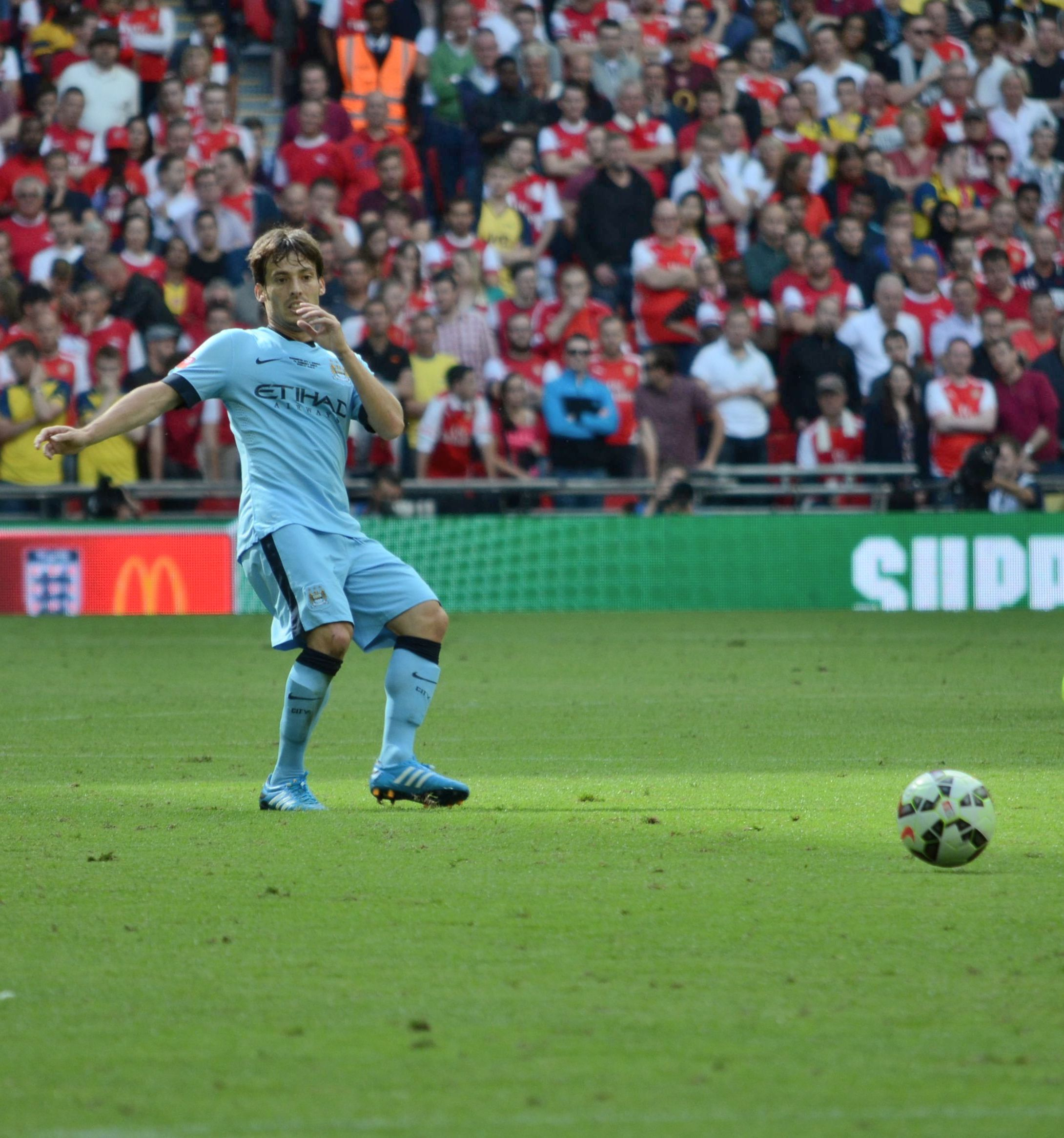 David Silva playing in the 2014 FA Community Shield match between Manchester City and Arsenal.